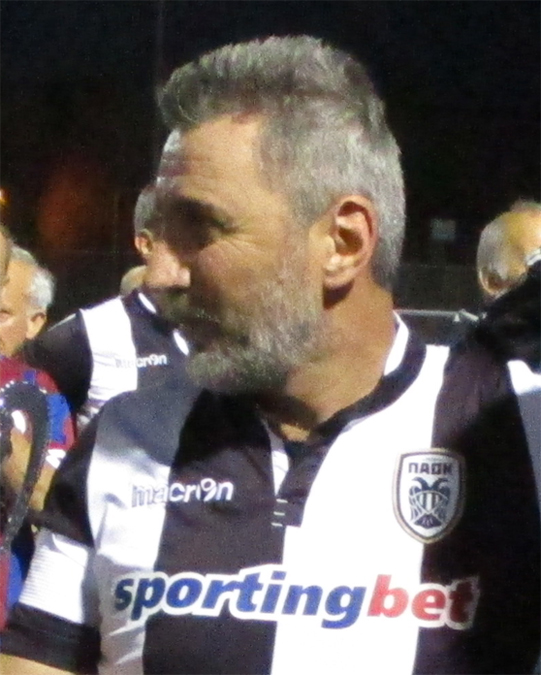 Former PAOK FC forward Stefanos Borbokis during a PAOK Veterans friendly match against Homer FC in Toronto.